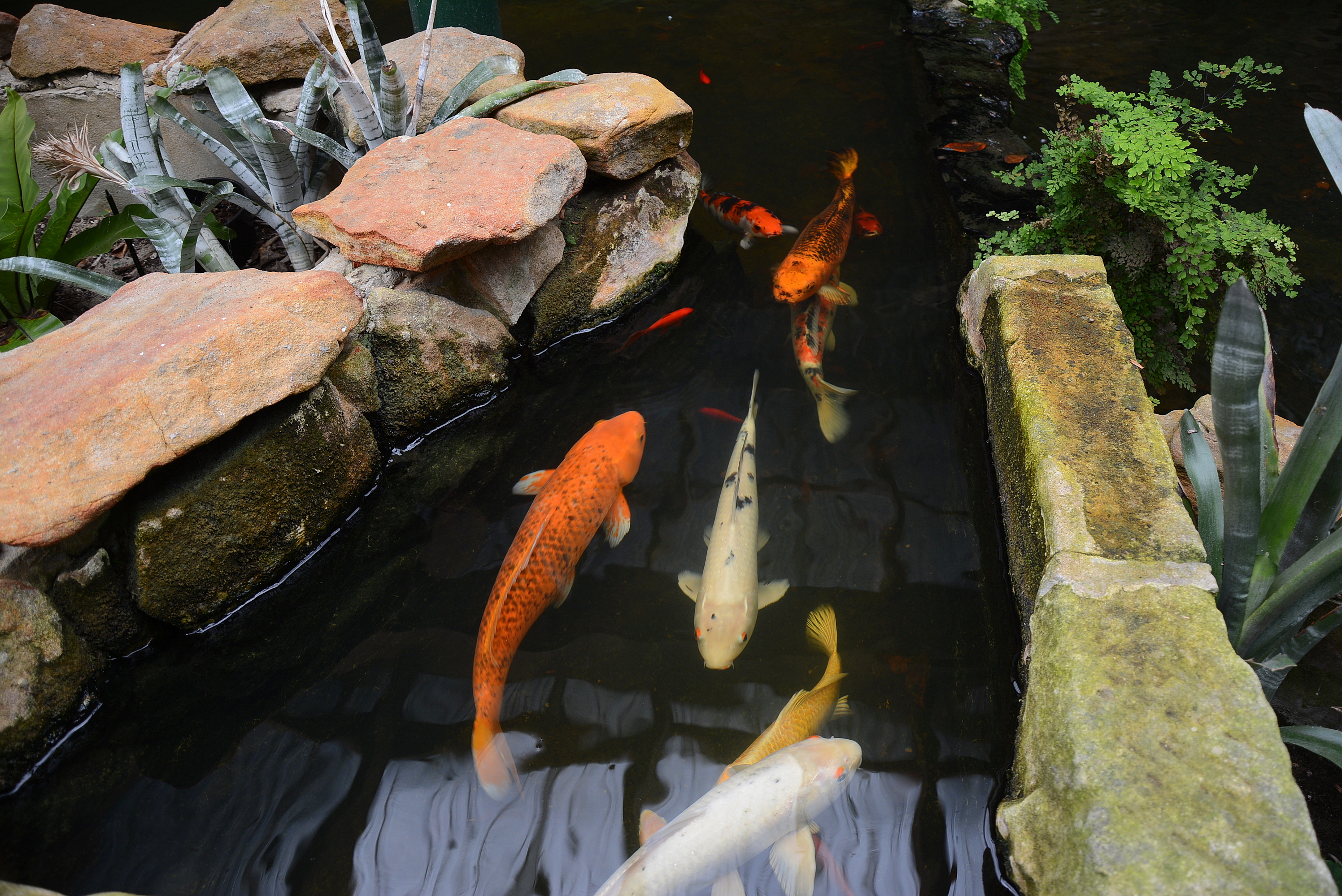 Lisgar Gardens, Hornsby, Sydney